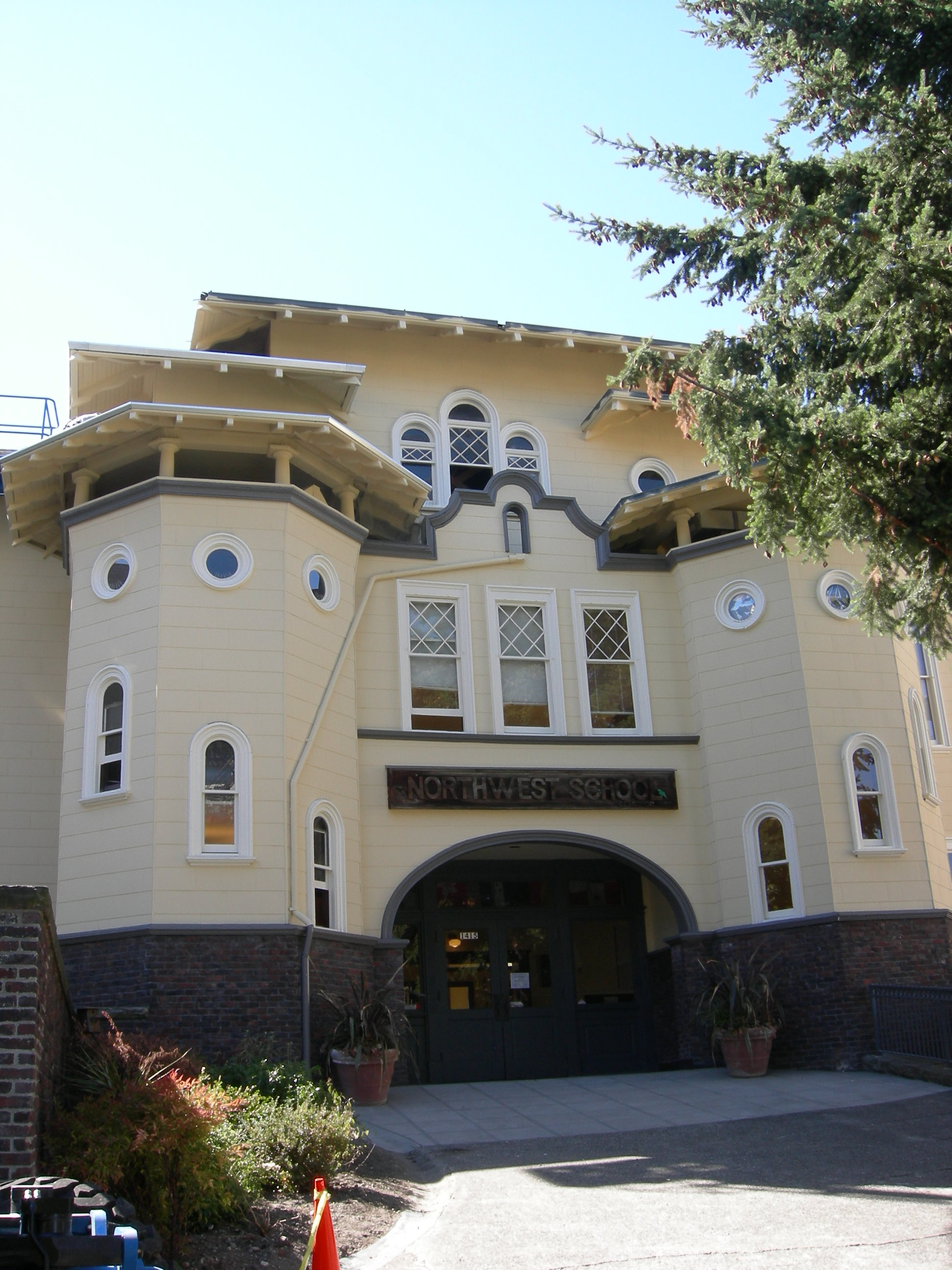 Old Summit School, now the private Northwest School, E. Union St. and Summit Ave., Seattle, Washington, on the border between Capitol Hill and First Hill. Listed on the National Register of Historic Places, ID #79002540.